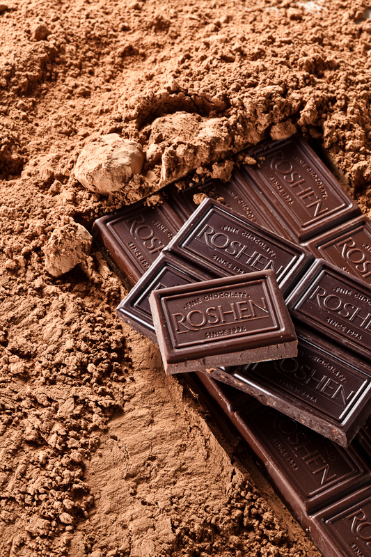 Roshen fine chocolate.